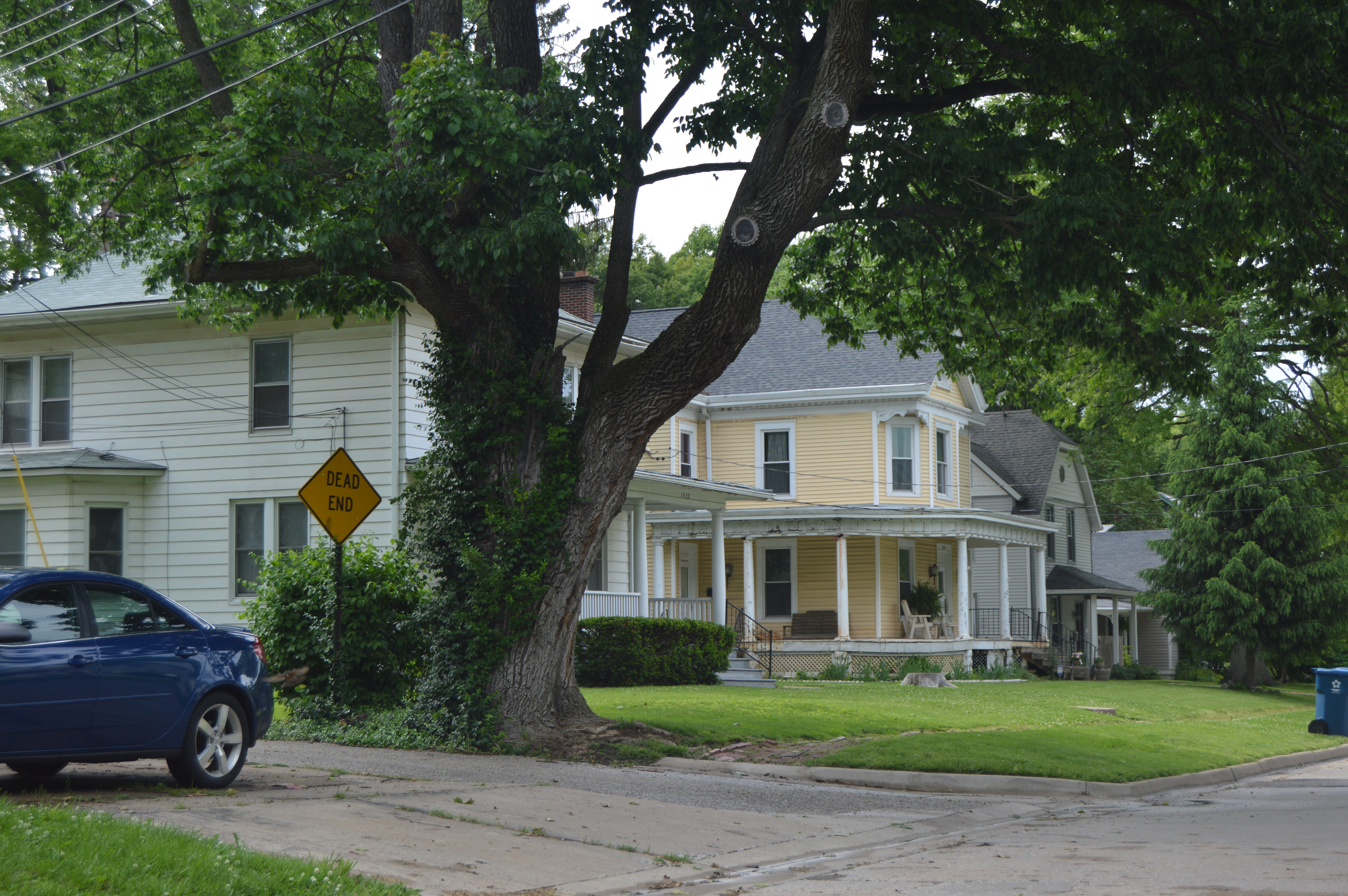 Houses on the western side of Evergreen Avenue just north of the College Avenue intersection in Alton, Illinois, United States. This neighborhood is a part of the Upper Alton Historic District, a historic district that is listed on the National Register of Historic Places.